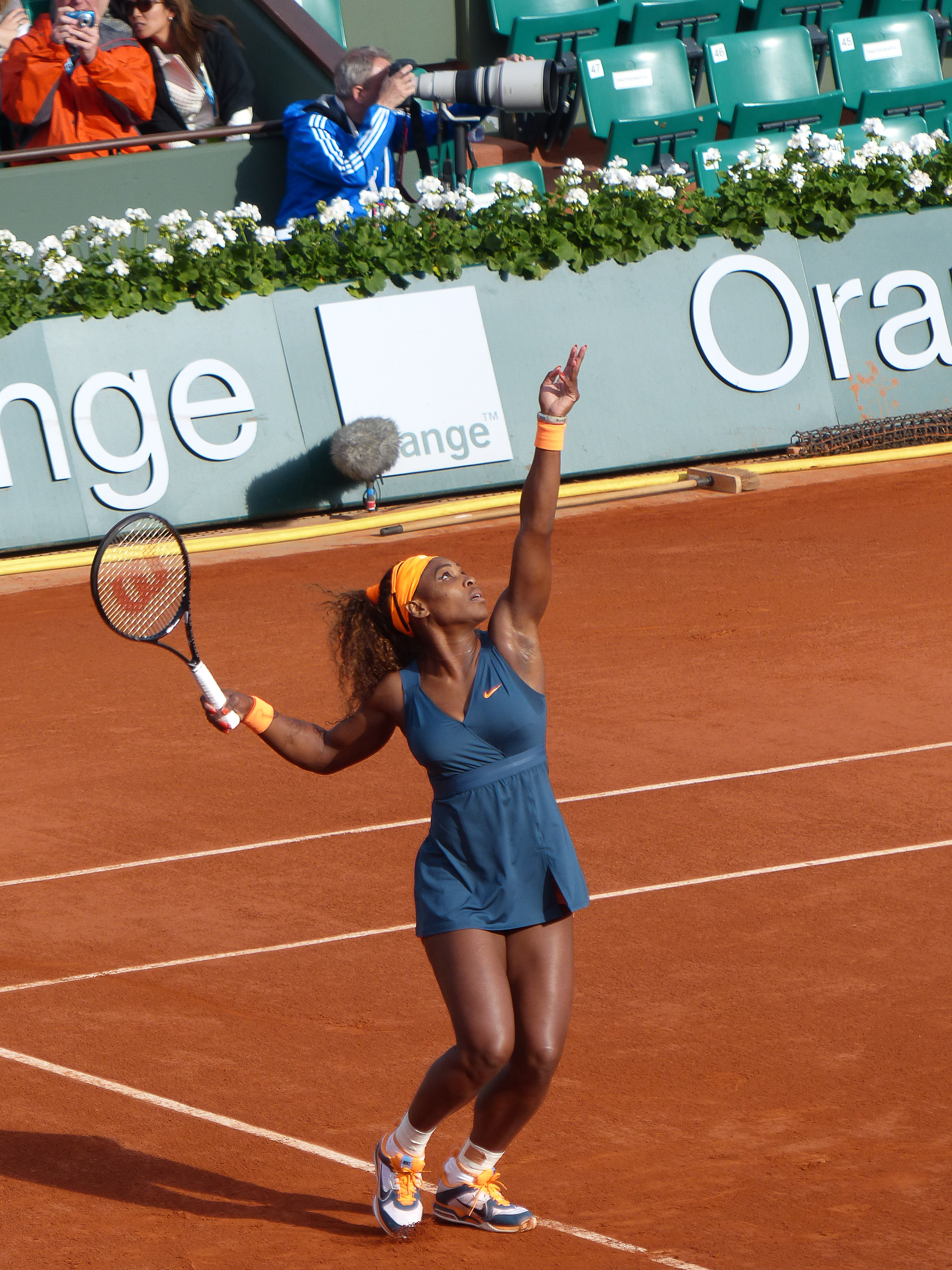 2ème tour Roland Garros 2013 : Serena Williams (USA) def. Caroline Garcia (FRA)